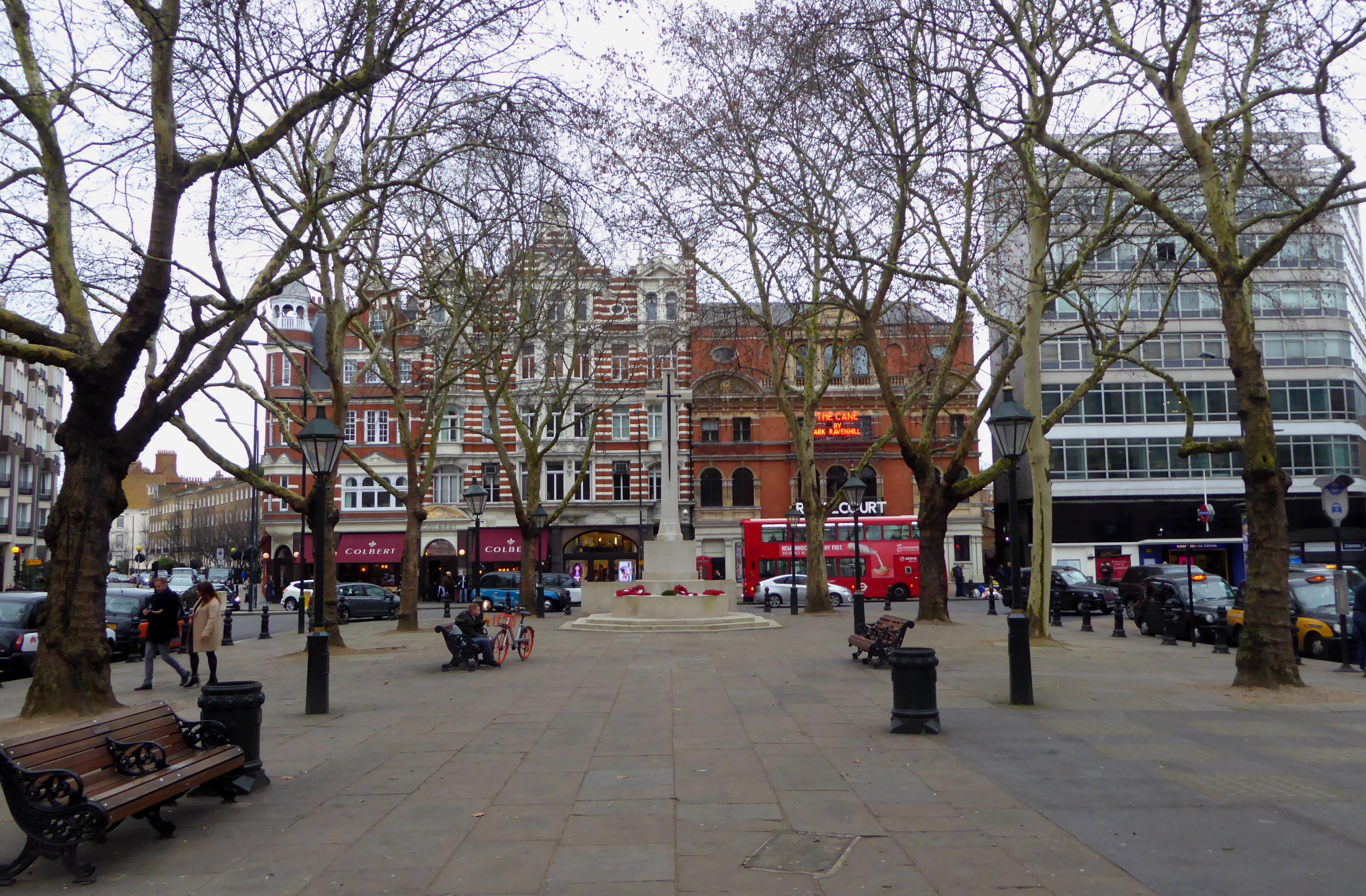 A view of Sloane Square, facing the war memorial, in winter.